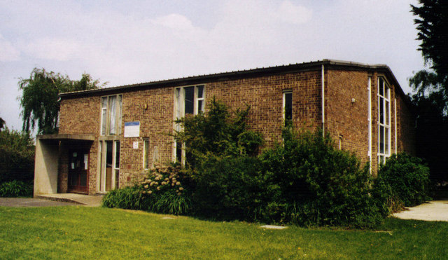 Good Shepherd parish church, Holbury, Hampshire